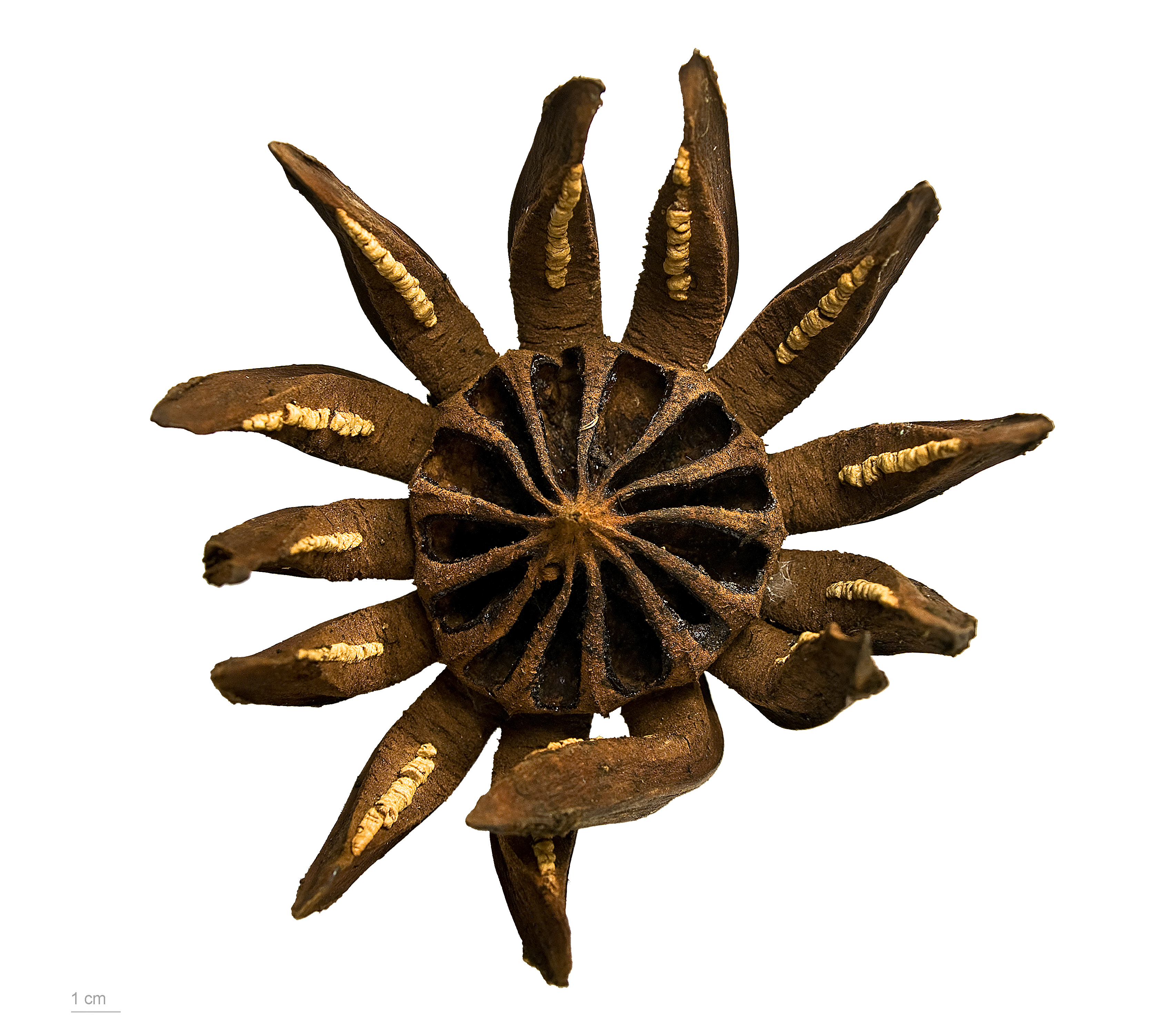 Clusia grandiflora , fruits and seeds